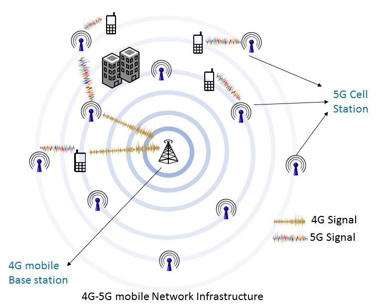 4G - 5G mobile network design diagram Utilised the open-source icons from the website below